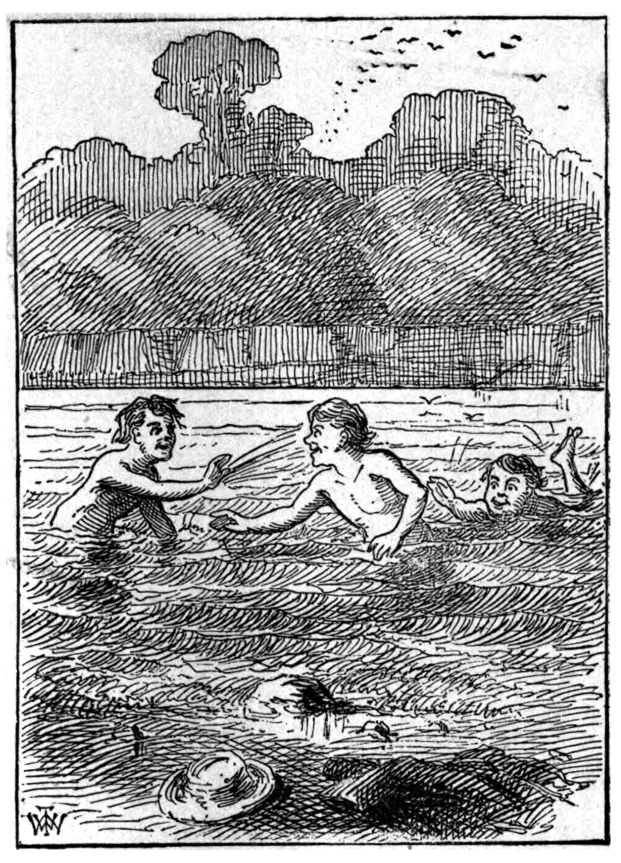 Scan of illustration from the book Adventures of Tom Sawyer, written by Mark Twain & illustrated by True Williams (Trueman W. Williams).